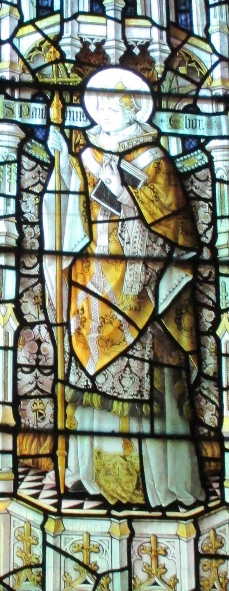 Detail of stained-glass window in the Baptistry of St Peter's Cathedral, Lancaster, Lancashire, depicting St Paulinus of York. It was produced in 1899 by Shrigley and Hunt from designs by Carl Almquist.